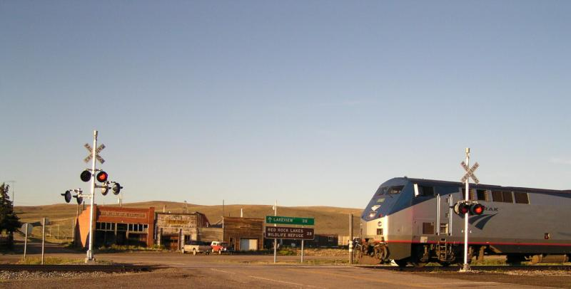 AOE's The Great Northwest and Rockies passes through the near-ghost town of MonidaMonida was once a helper station on UP's Montana Sub over Monida Pass.